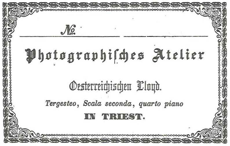 Label for photographs of the Lloyd's photographic studio in Triest (Tergesteo)